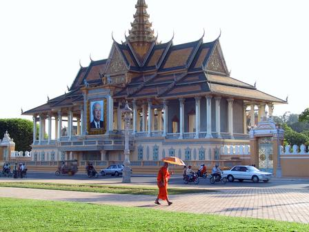 Phnom Penh palace